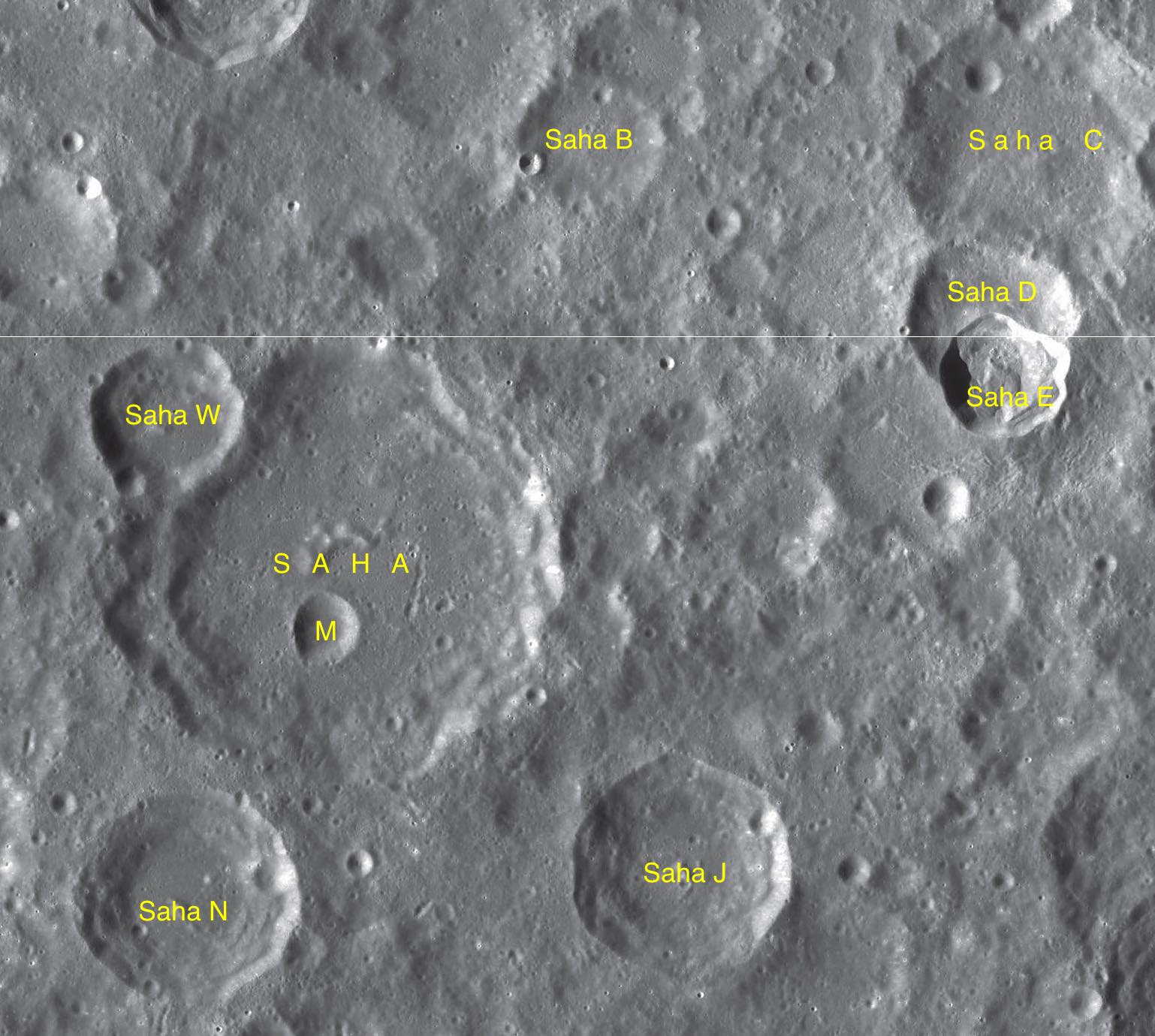 Parts of the charts LAC-64, LAC-82 used for the presentation